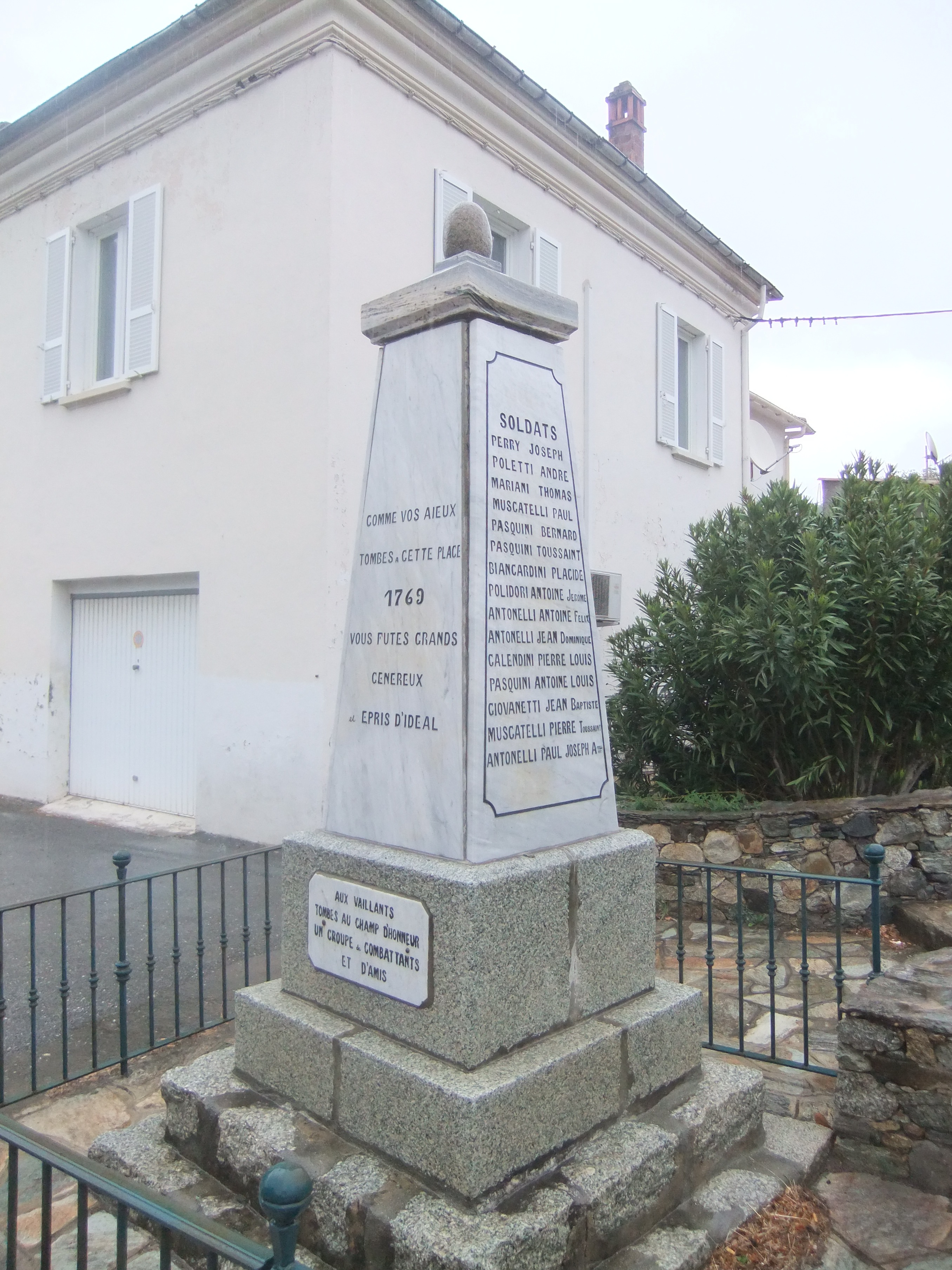 War memorial of Ponte-Novo, hamlet depending of Castello-di-Rostino, Haute-Corse department, France. The texts refers to the Battle of Ponte Novu.